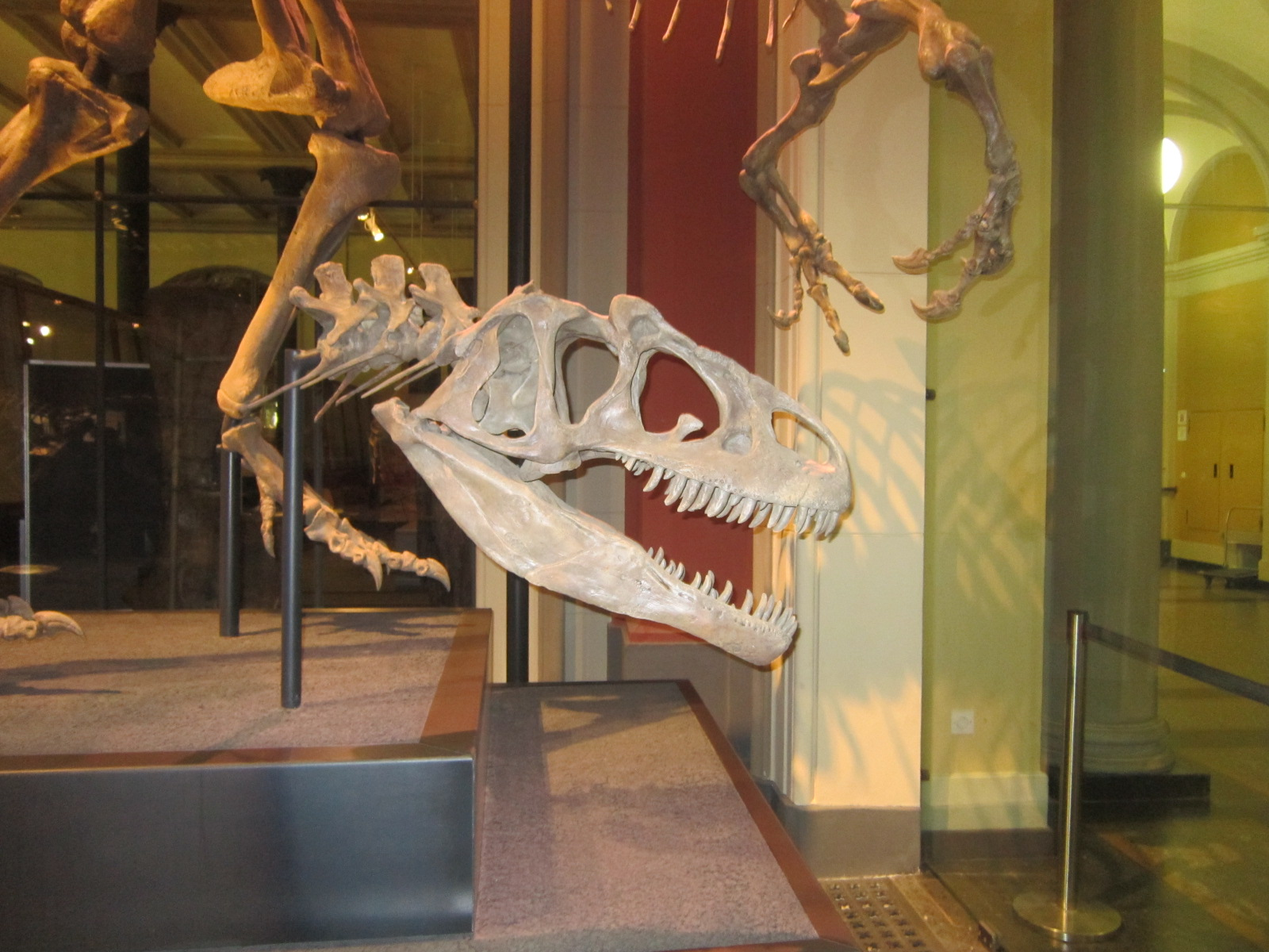 Skull of Allosaurus. Museum für Naturkunde, Berlin.